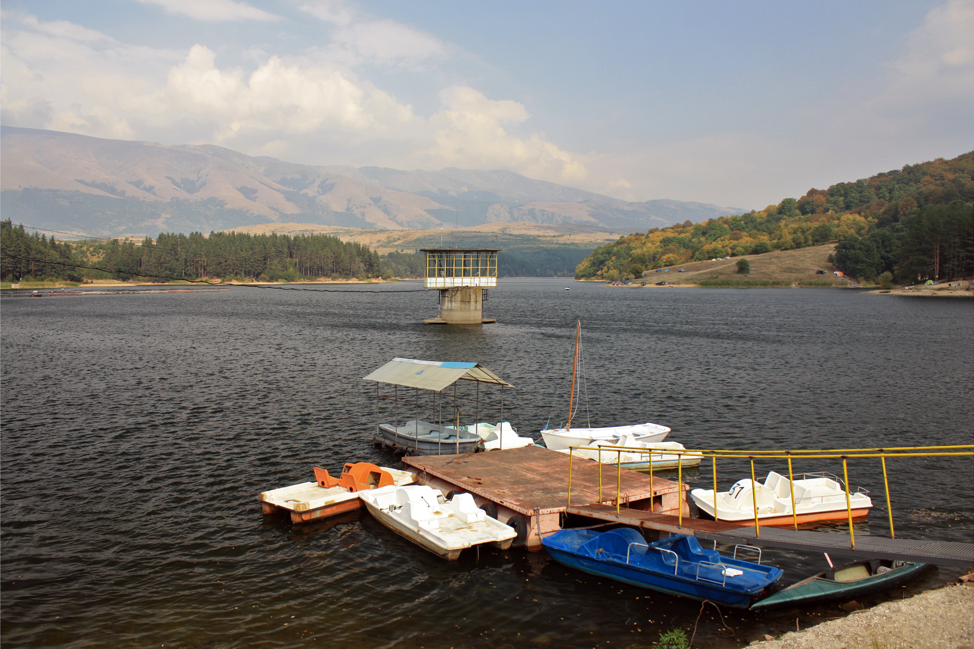 Dushantsi Dam, Bulgaria